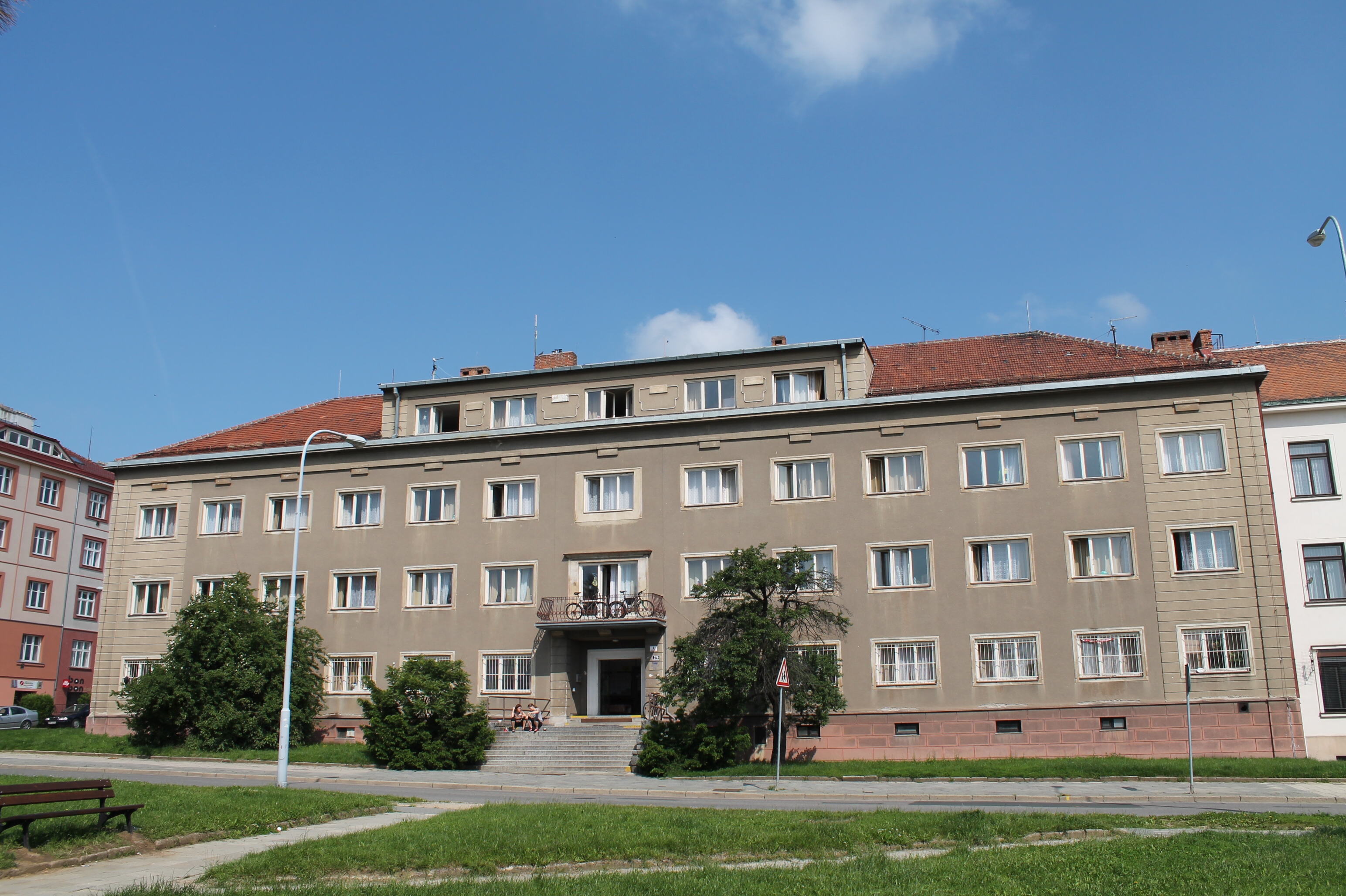 Hall of residence of Masary University, Brno, Czech Republic - Google Maps - Google Earth